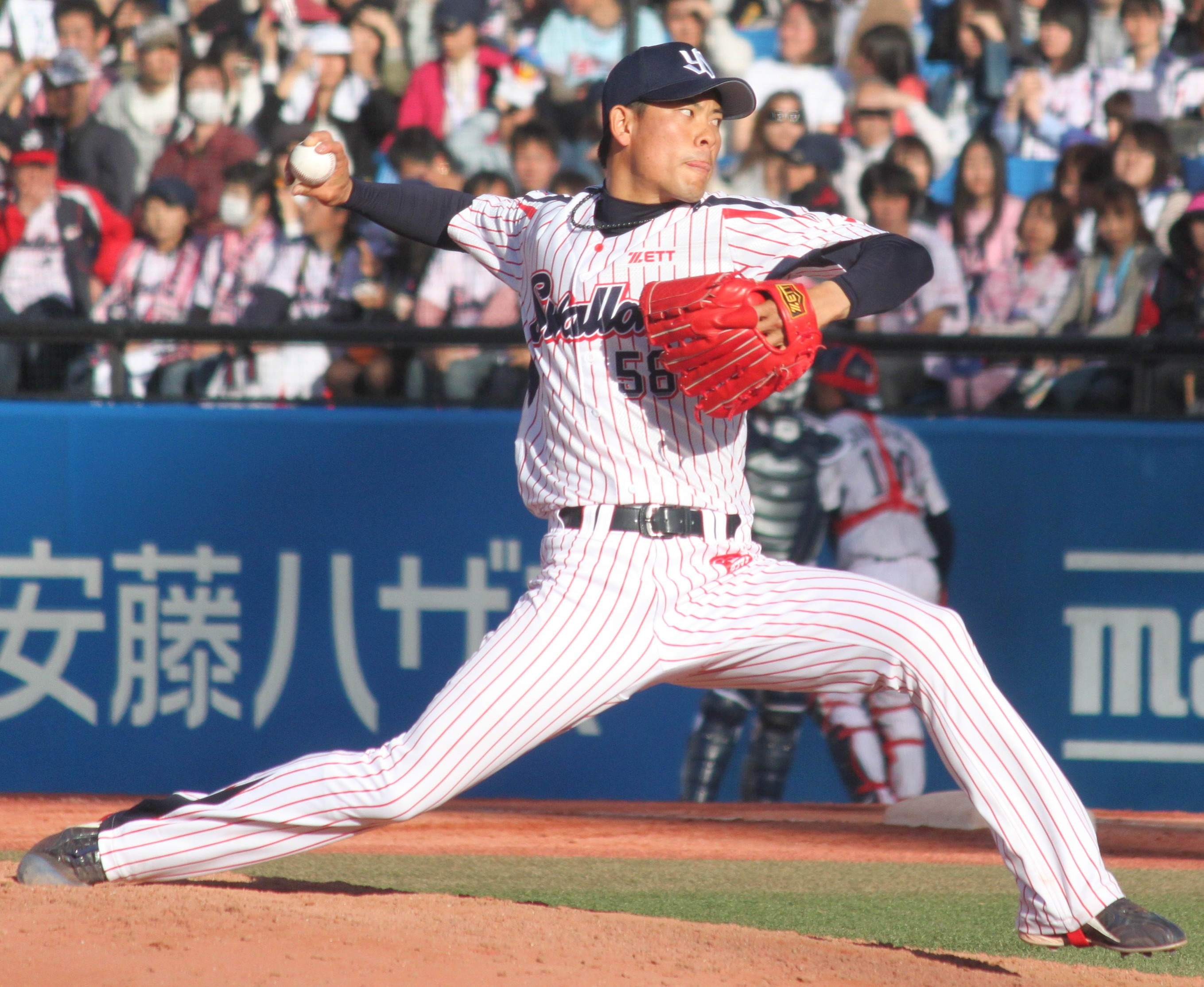 Kenta Abe, pitcher of the Tokyo Yakult Swallows, at Meiji Jingu Stadium.